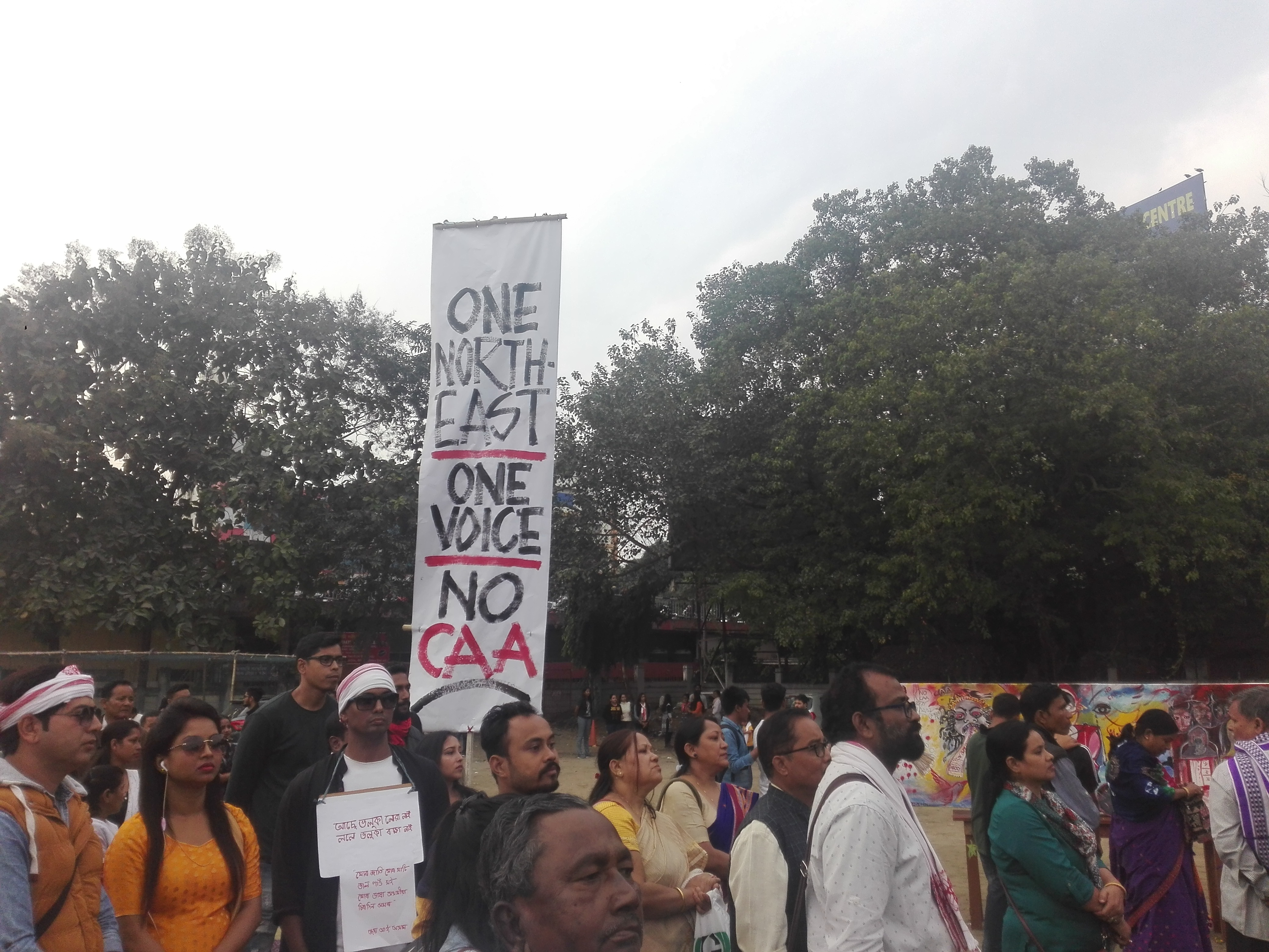 Anti-CAA Banner with the slogan "One North East/One Voice/No CAA, demonstrated at Cultural Protest organised by Artistes of Assam at AEI playground Chandmari.